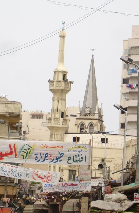 A picture of a church next to the mosque in Bakus; a very crowded popular area in Alexandria, Egypt. A common scene in the Egyptian streets.